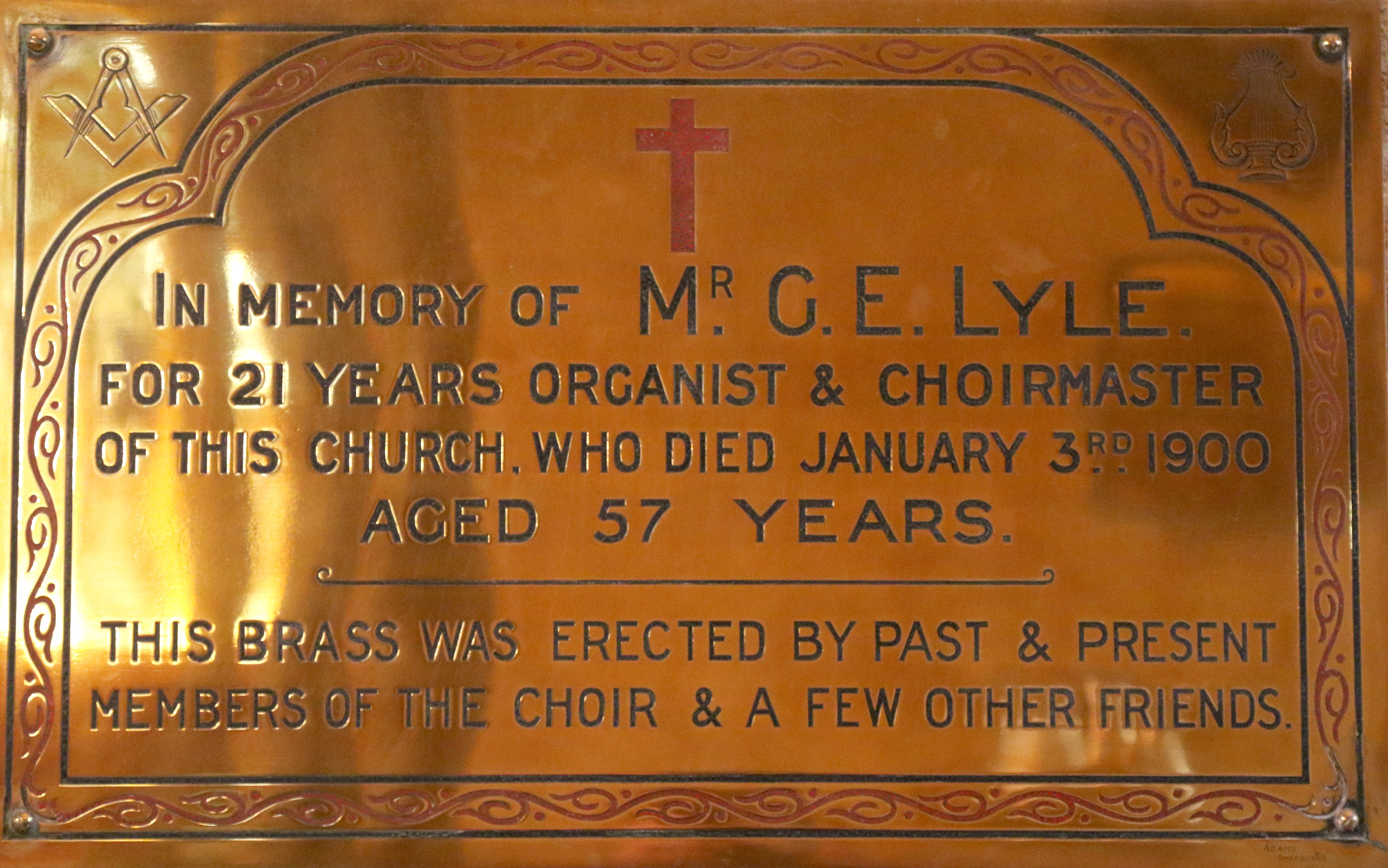 George Edwin Lyle. Organist of Sherborne Abbey 1873 - 1900